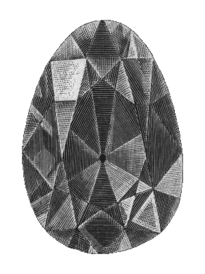 Dresden Green Diamond